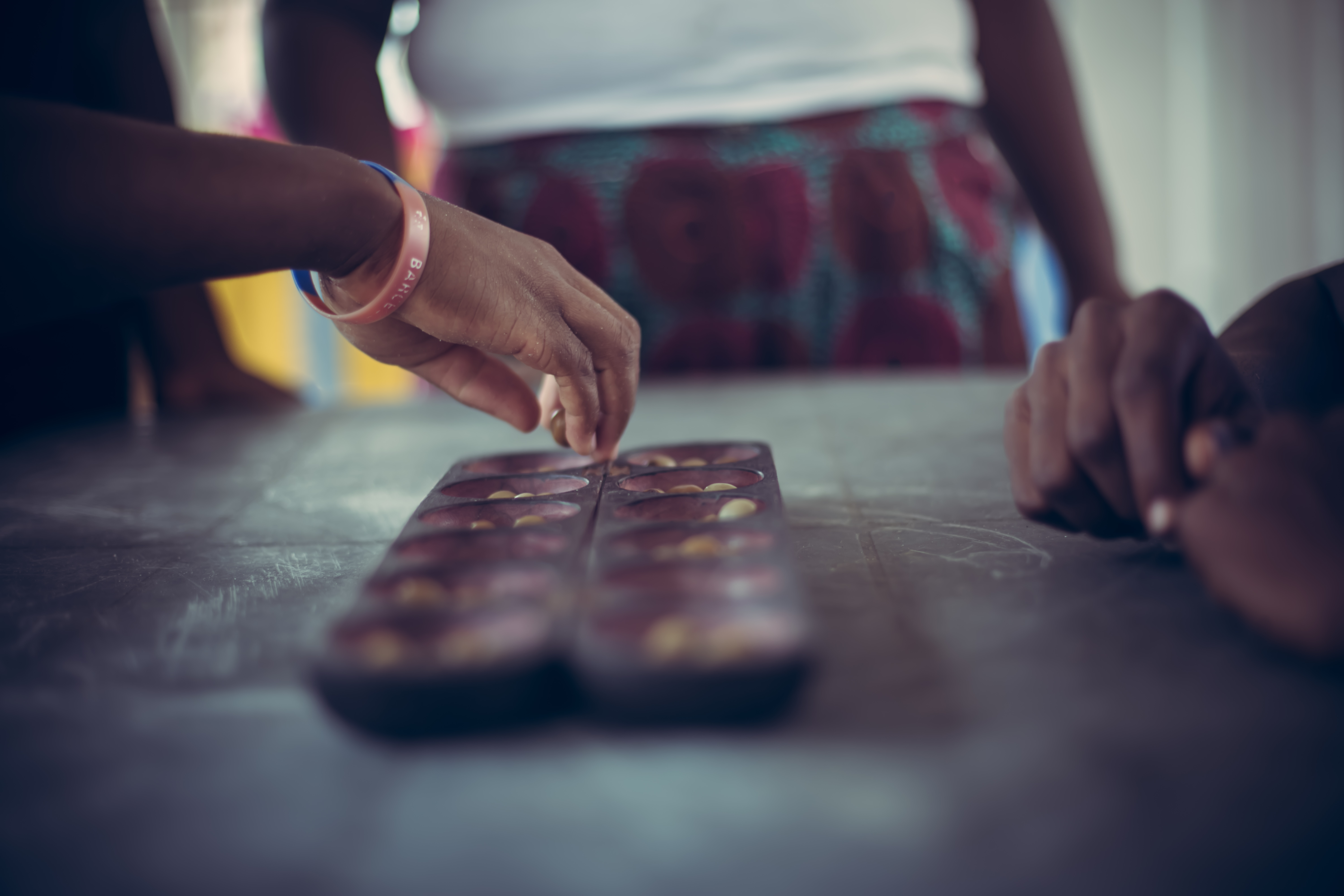 This is an image with the theme "Play" from: Ghana